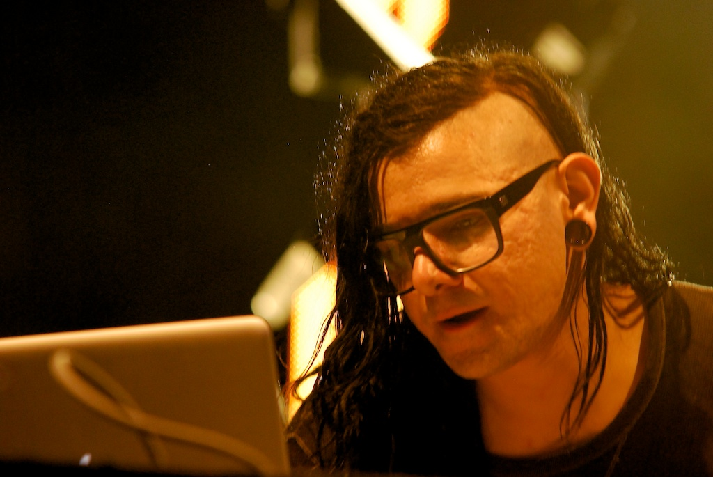 Skrillex rocking the 2011 Cisco Ottawa Bluesfest. By: Brennan Schnell